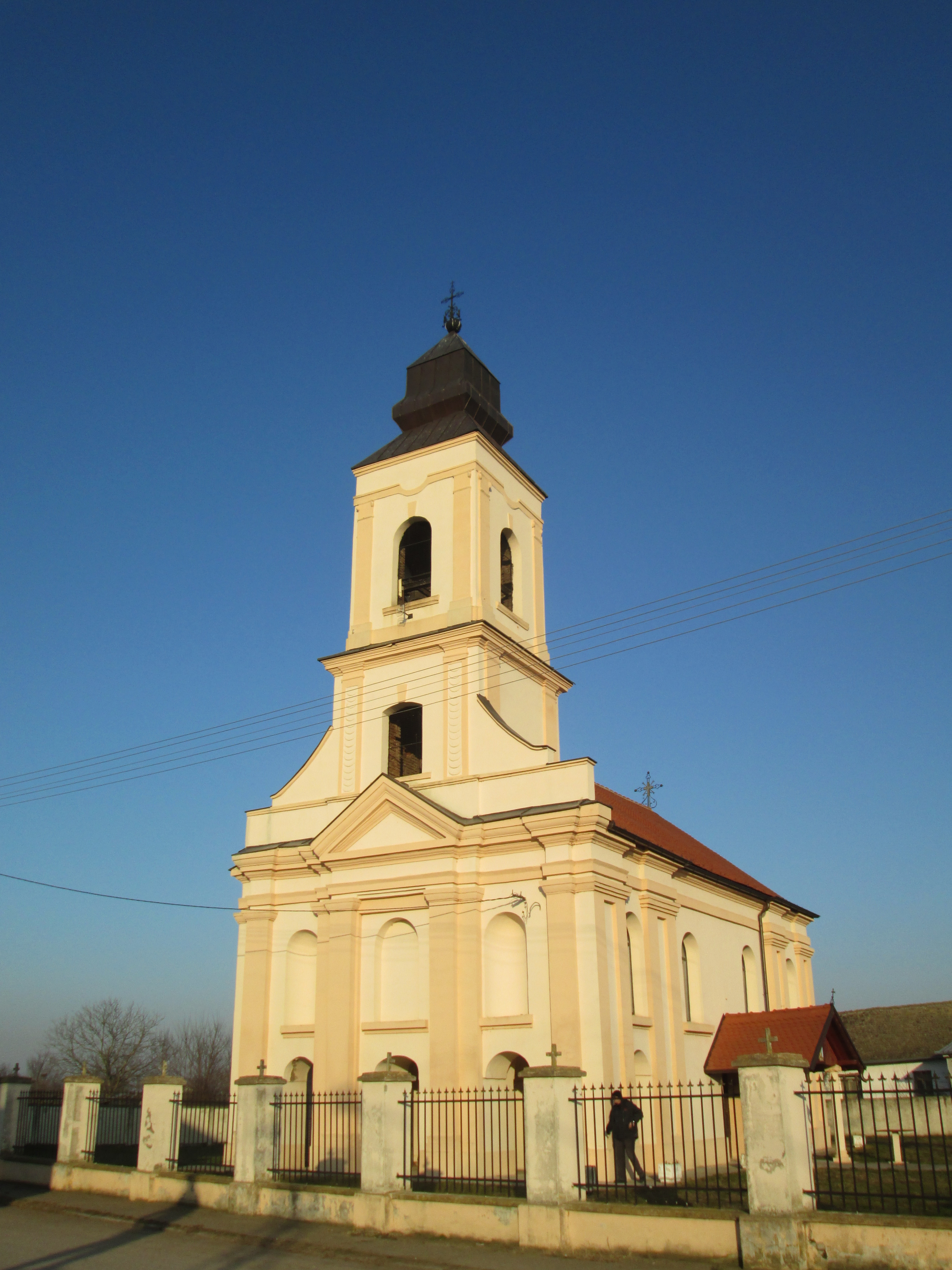 Saint John's Church, Sremski Mihaljevci Српски (ћирилица): Црква Св. Јована, Сремски Михаљевци